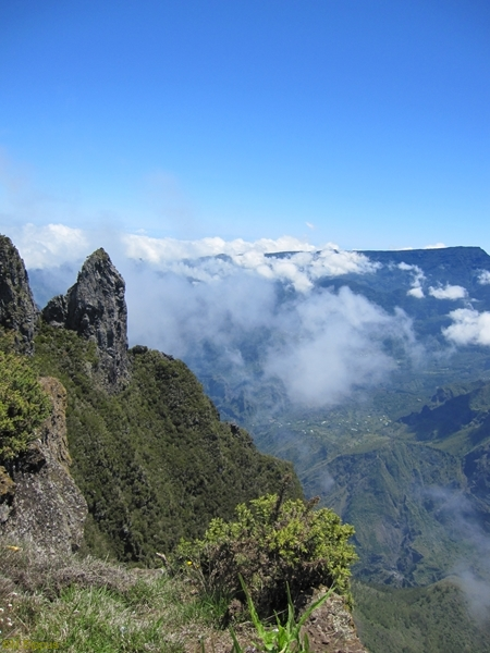 Mafate valley seen from Maido, Reunion